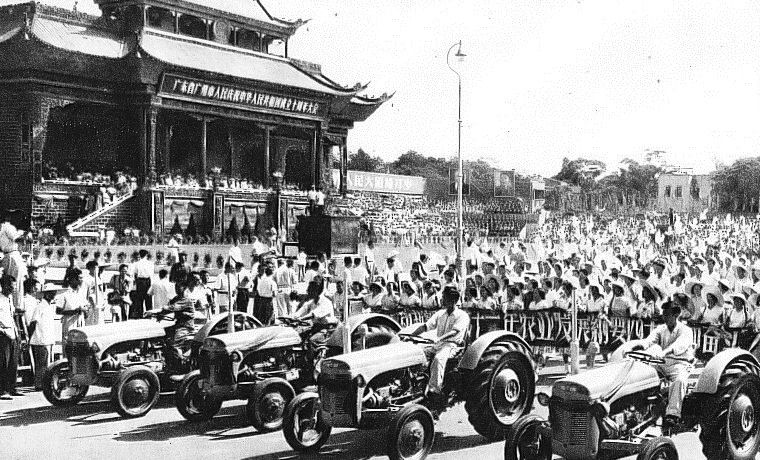 China 10th Anniversary Parade in Guangzhou